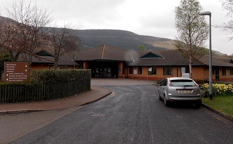 Main entrance to George Thomas Hospital, Cwmparc